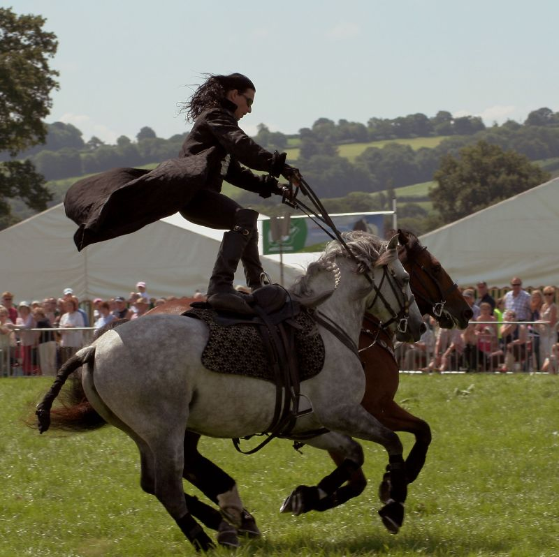 Neo riding horses